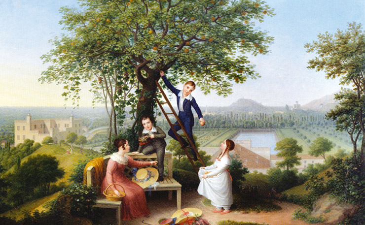 The children of Francis IV of Modena at the gardens of Castello del Catajo